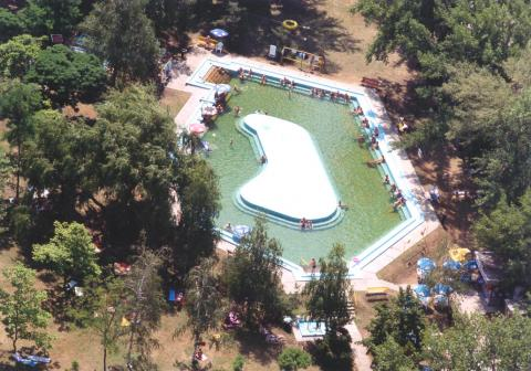 Jászárokszállás, Hungary, aerialphotography